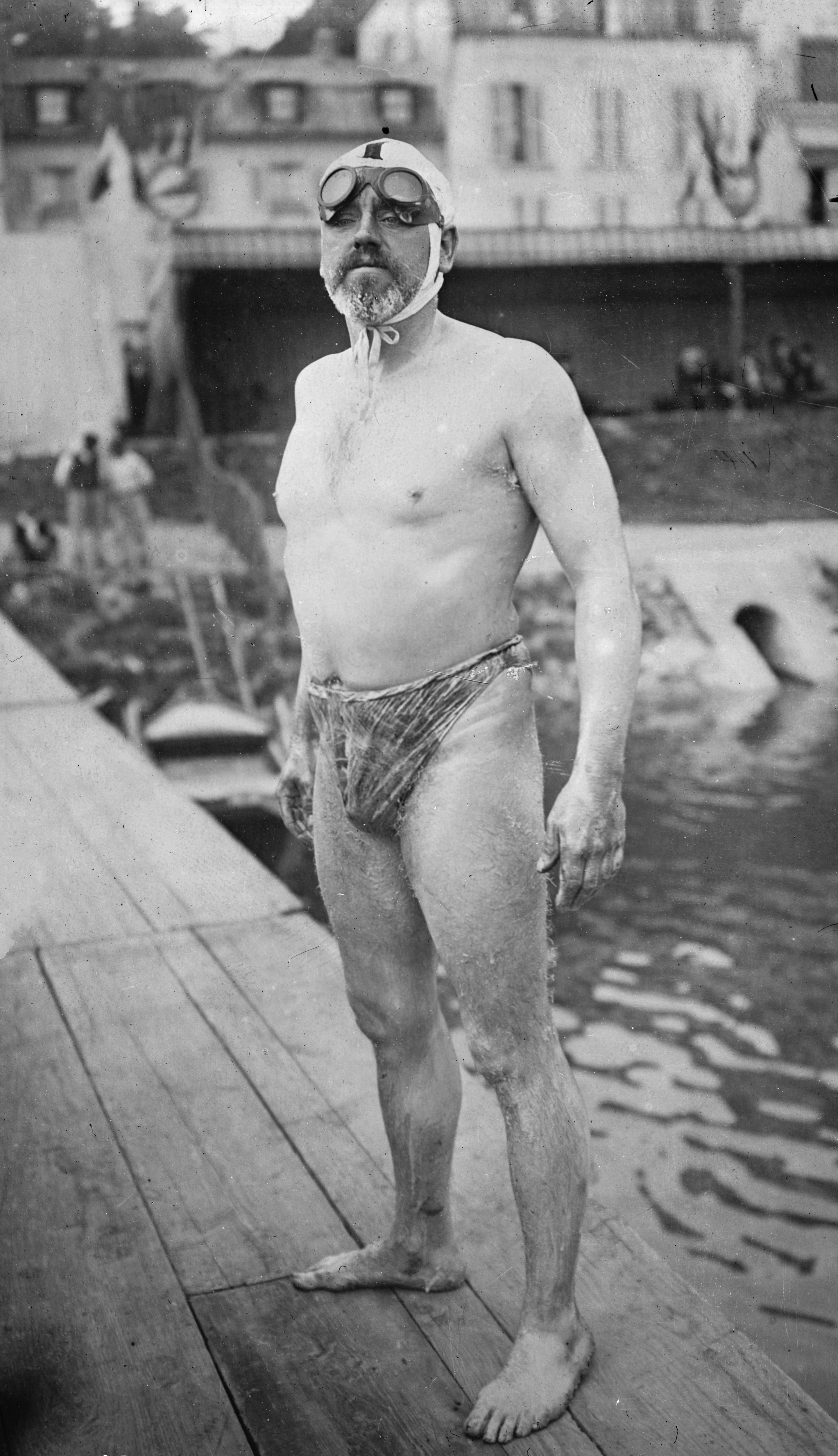 Photo shows Thomas William Burgess (1872-1957), who swam the English channel on Sept. 6, 1911. He was also known as Thomas William Burgess. Bain News Service, publisher, Sept. 19, 1911 (date created or published later by Bain). 1 negative : glass ; 5 x 7 in. or smaller. Notes: Title and date provided by the Bain News Service on the negative. Photo shows William T. Burgess, who swam the English channel on Sept. 6, 1911. (Source: Flickr Commons project, 2008) Forms part of: George Grantham Bain Collection (Library of Congress). Subjects: Swimming Format: Glass negatives. Repository: Library of Congress, Prints and Photographs Division, Washington, D.C. 20540 USA, General information about the Bain Collection is available at Persistent URL: Call Number: LC-B2- 2294-8